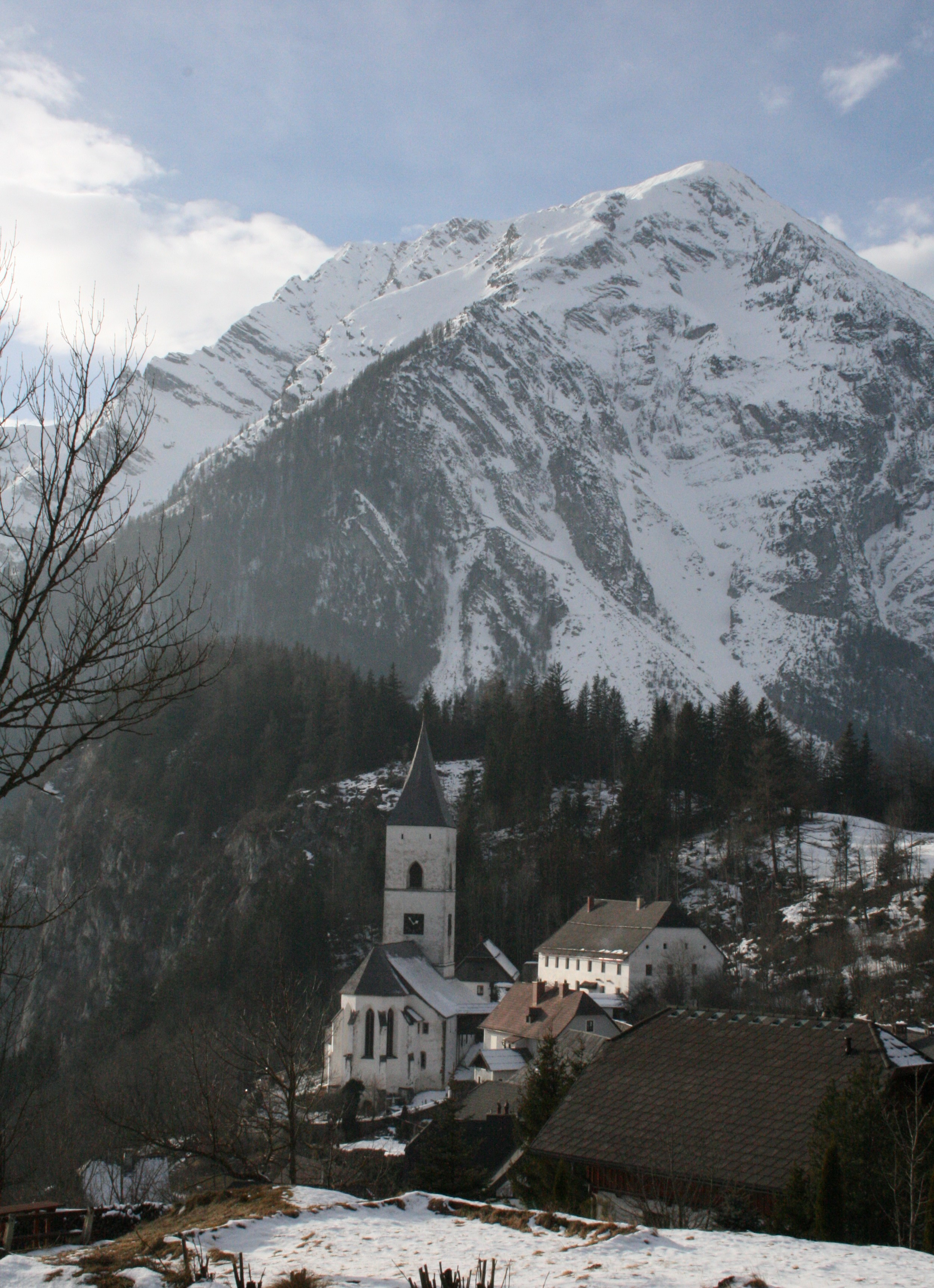 Pürgg, Styria, Austria